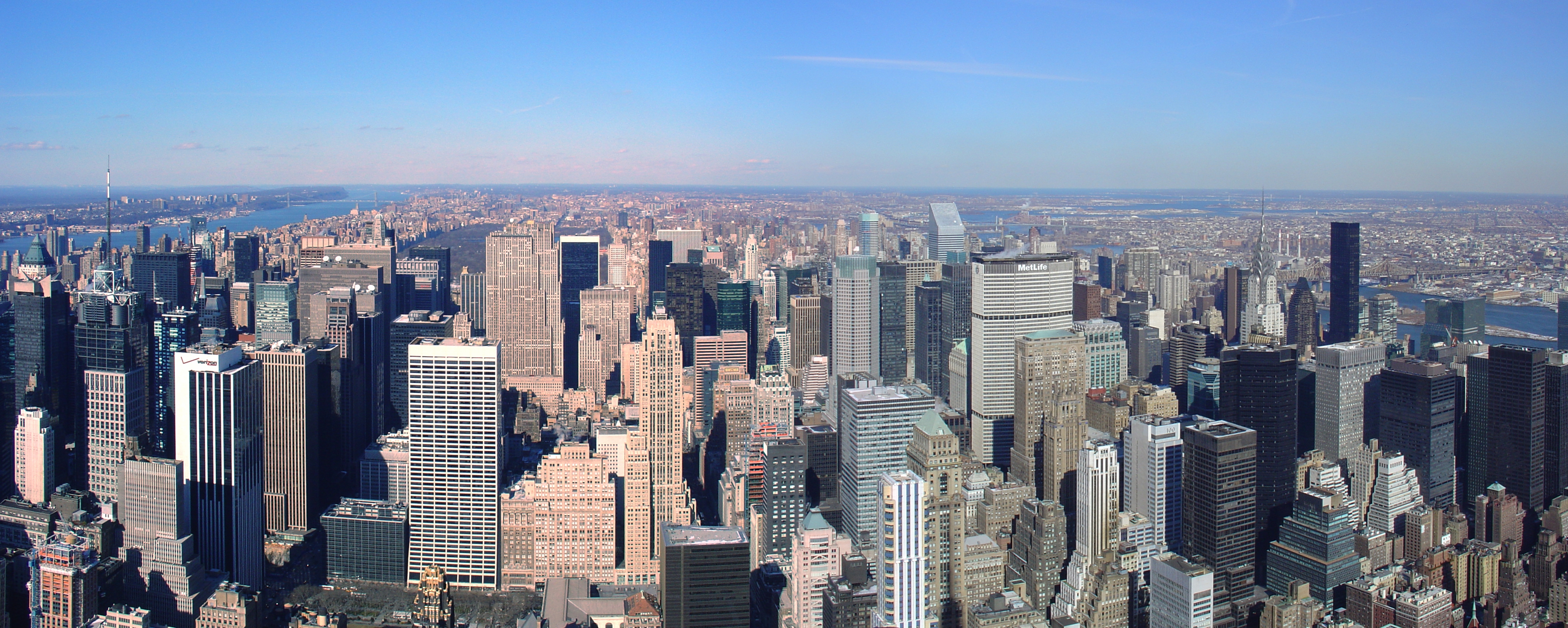 Panorama Empire states building